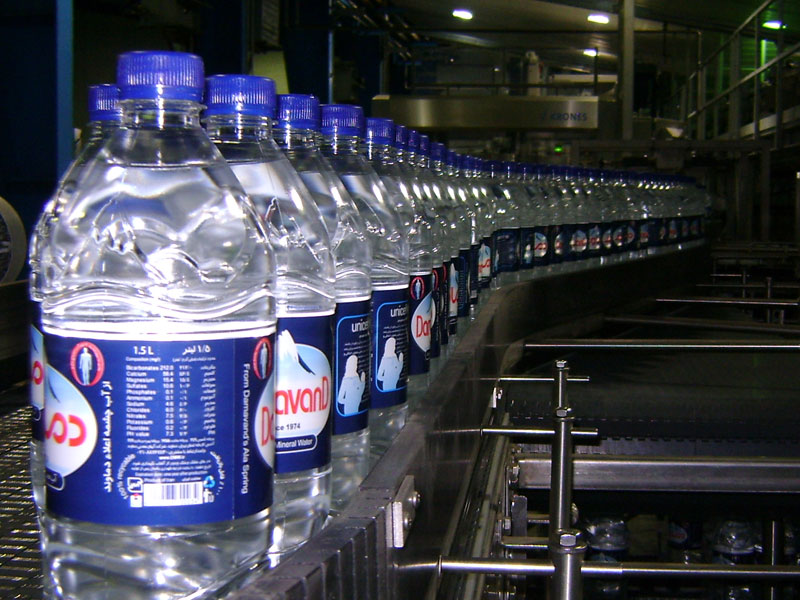 Damavand Mineral Water factory